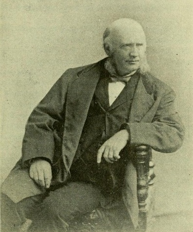 Robert S. Hale, U.S. Congressman from New York